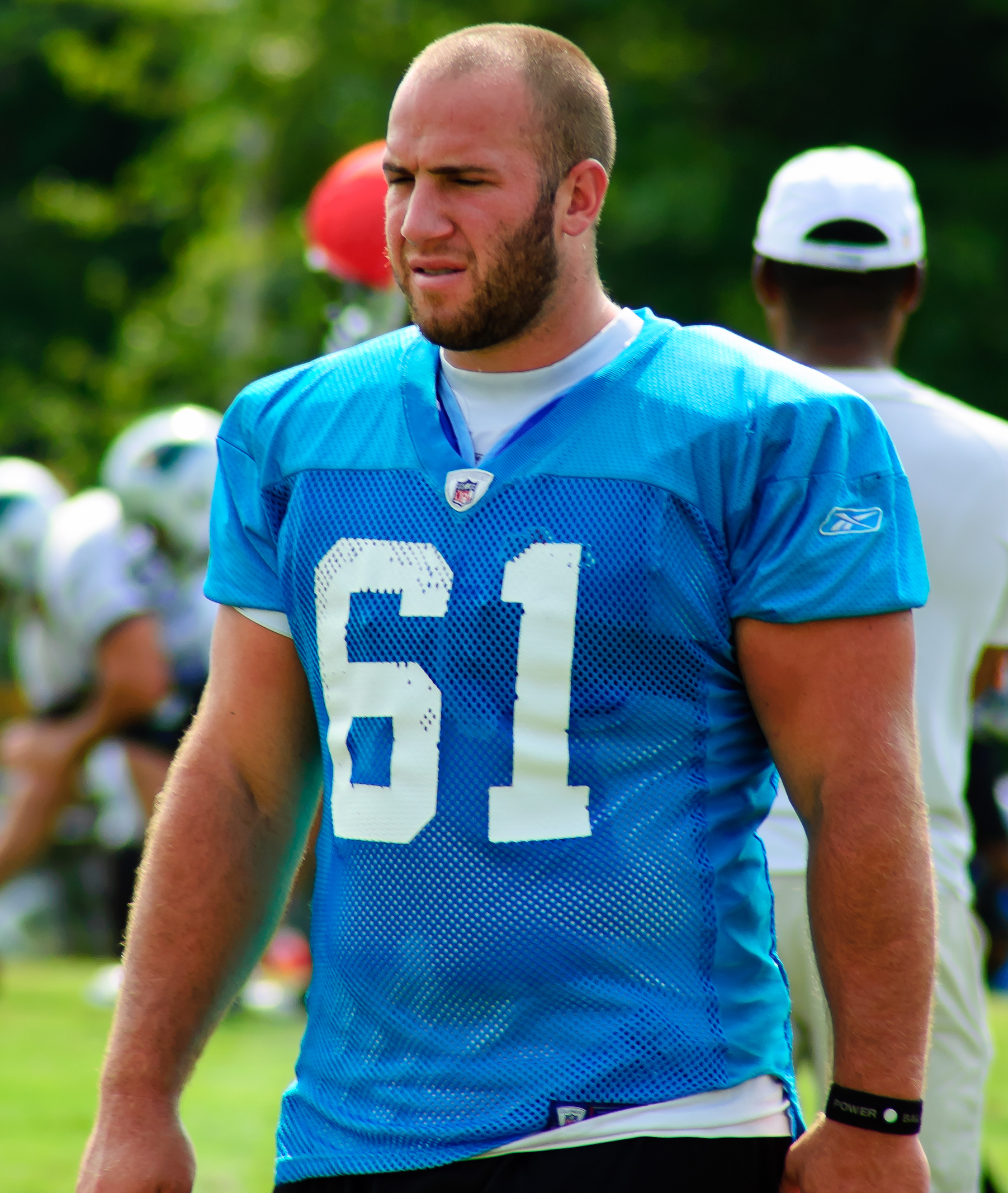 Carolina Panthers Training Camp on August 11, 2010 at Wofford College in Spartanburg, SC.